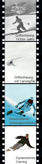 different styles of skiing - carving, skidding